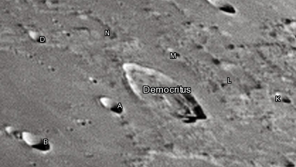 Democritus lunar crater as seen from Earth with satellite craters labeled